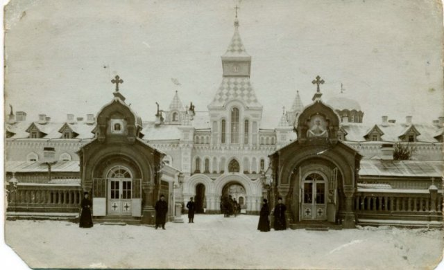 Saint Petersburg (Russia), Strelna, Coastal Monastery of St. Sergius